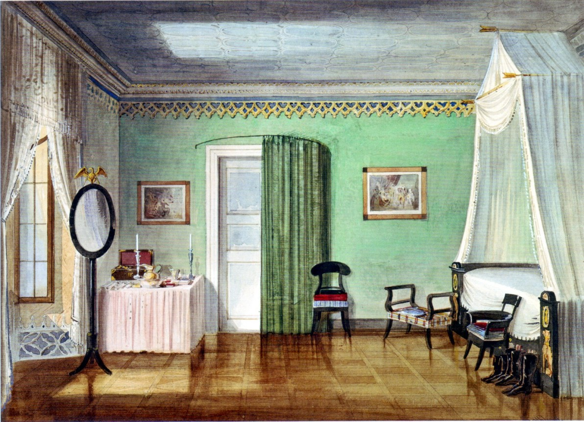 A so called "Zimmerbild" (chamber painting). Coburg, Germany. Early Victorian period.